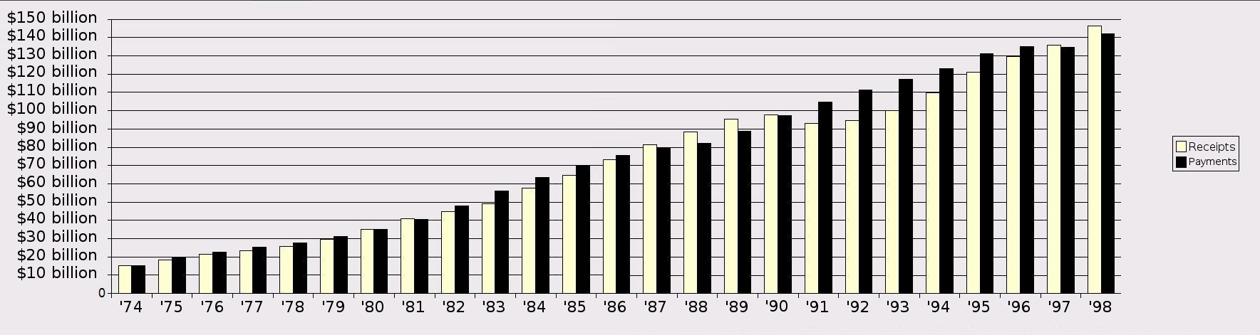 This chart provides historical data for Australian Government general government sector cash receipts and cash payments for the period 1974-75 (fiscal year 1974) to 1998-1999 (fiscal year 1998). The Australiasian Bureau of Statistics reporting framework was modified in 1999.